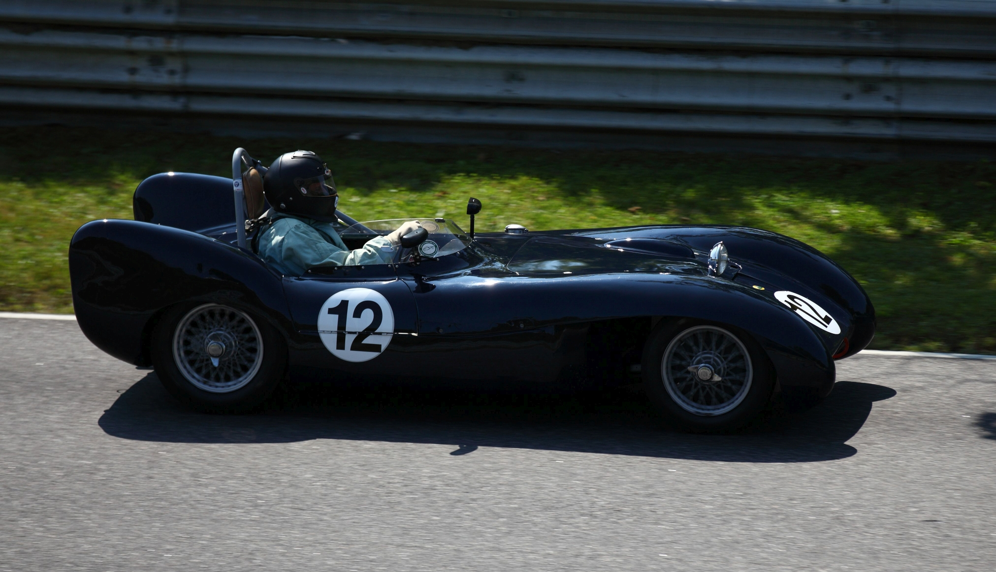 Jack Boxstrom with a Lotus IX he originally owned and drove in the 1950-60s.